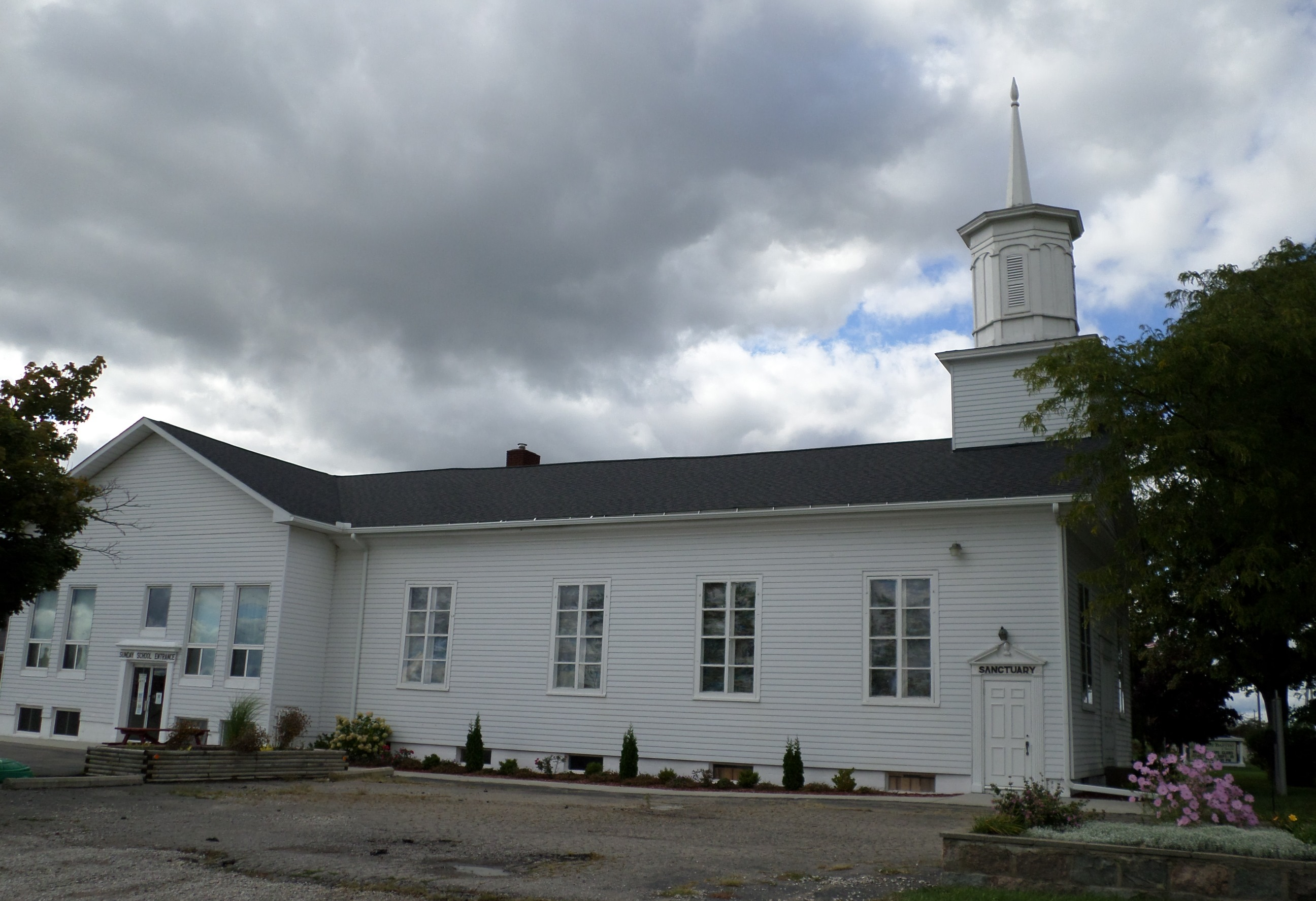 The First Baptist Church, located at 6106 S Saginaw Rd, Grand Blanc, MI.